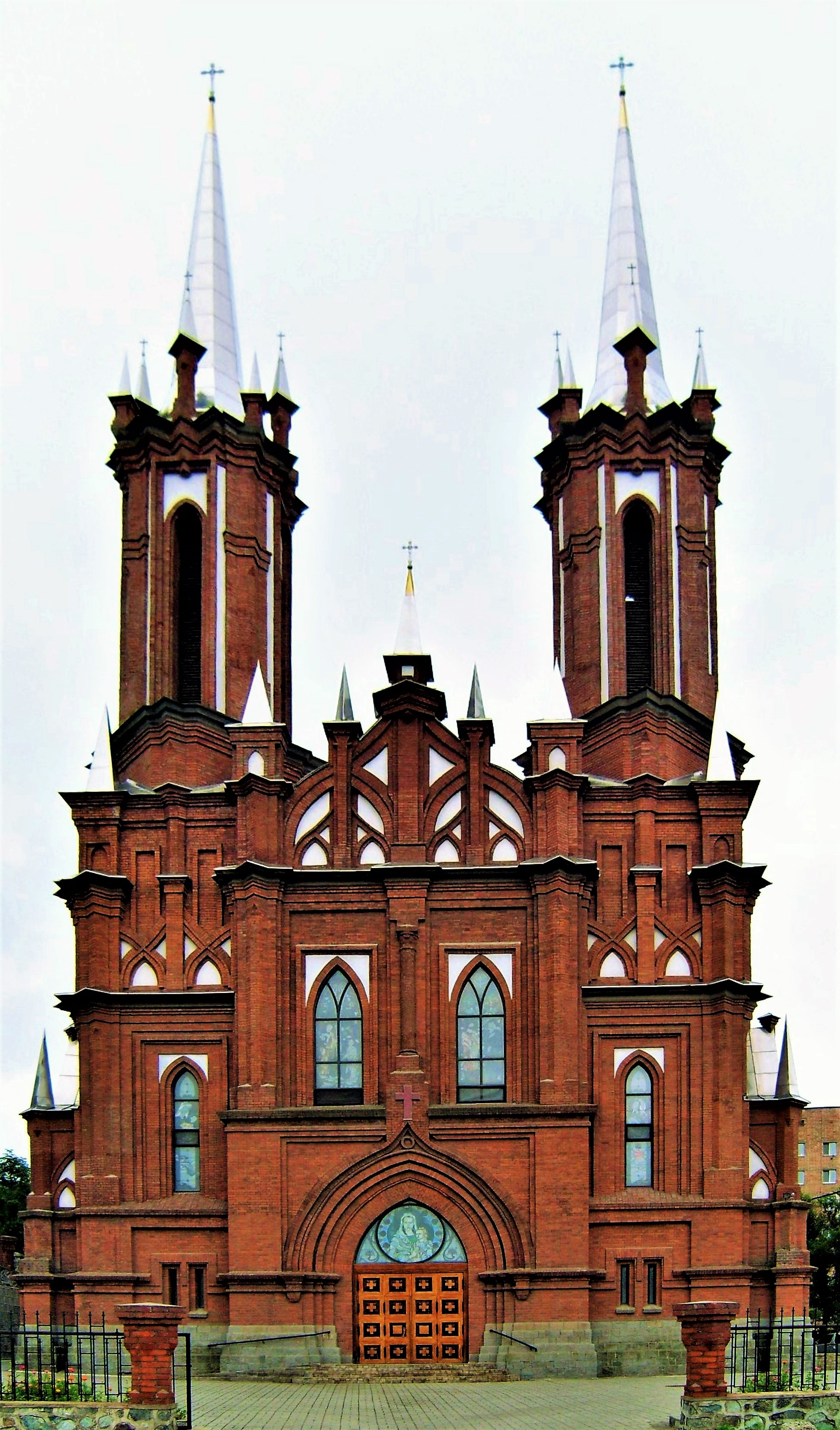 Most Holy Mother of God Catholic Church (Vladivostok)